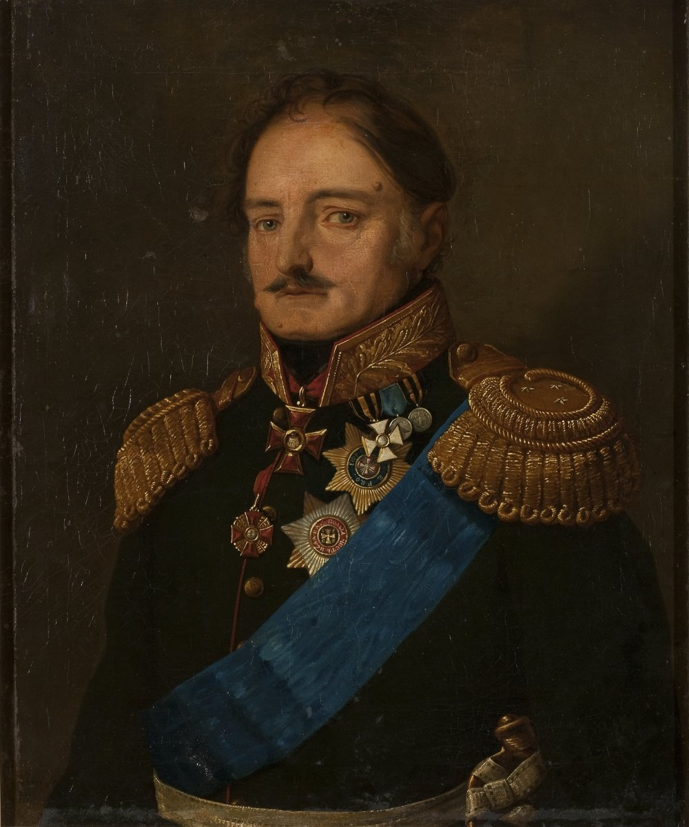 Tuchkov Sergey Alexeevich